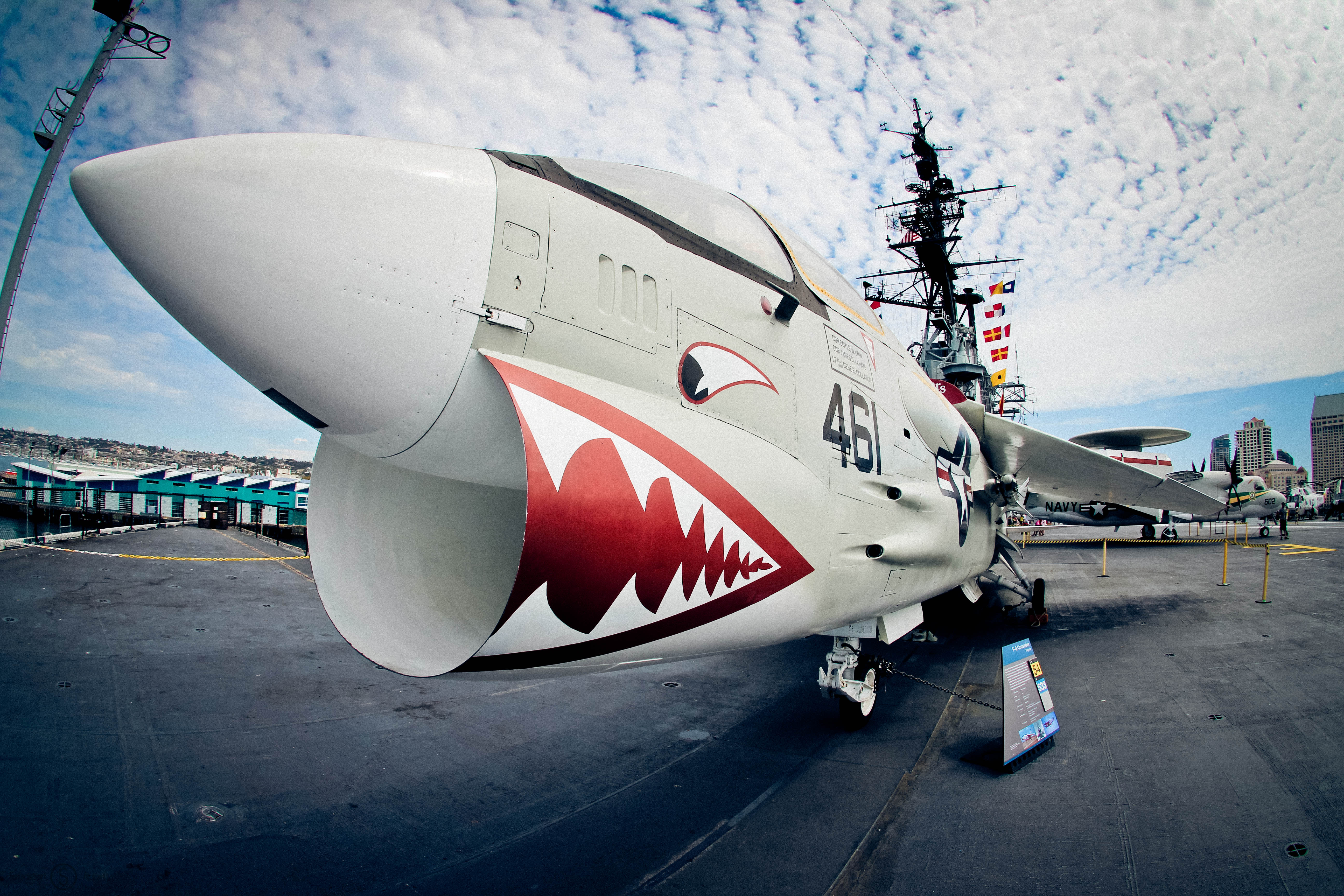 A F-8 Crusader on the USS Midway in San Diego